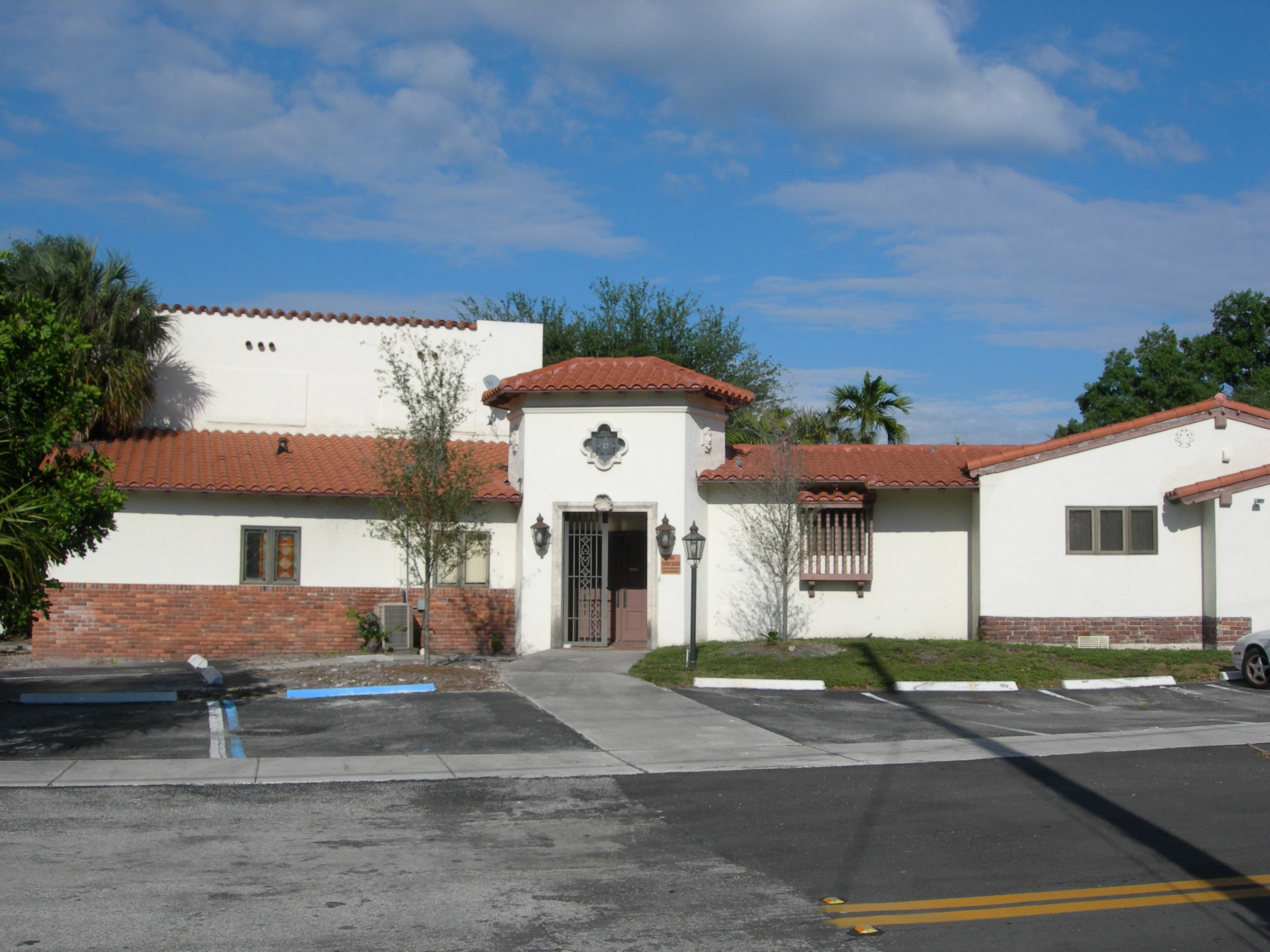 Former location of James Randi Foundation offices, Fort Lauderdale, Florida, USA